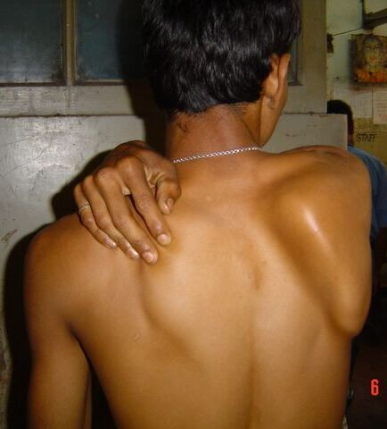 Right sided "Winging of Scapula", a feature of long thoracic nerve palsy. This is an edited version of the source image made for use in the "Anatomist" iOS and Android app and shared here under the terms of the source image's Share Alike Creative Commons license.